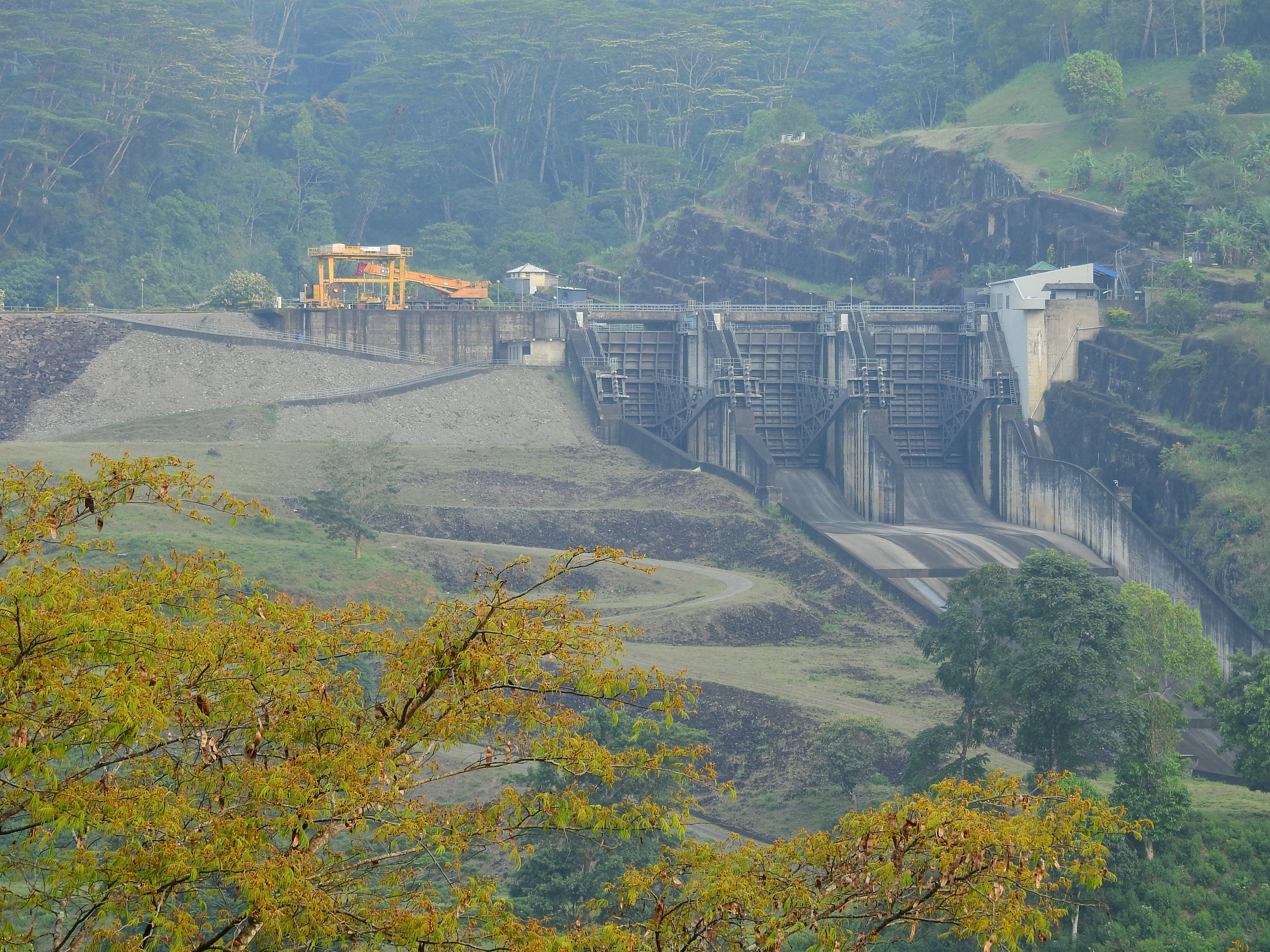 This photo was taken as part of a photo project by Wikimedia Community User Group Sri Lanka, covering current/future hydroelectric dams (and its surroundings) in the Central and Sabaragamuwa provinces of Sri Lanka. User:Rehman handled the photography, while User:Azeez and User:PasinduBR handled the logistics/planning of routes. Description of photo: View of Kotmale Dam from downstream. Further information on the subject(s) of the photograph may be found in the category/ies of this file.